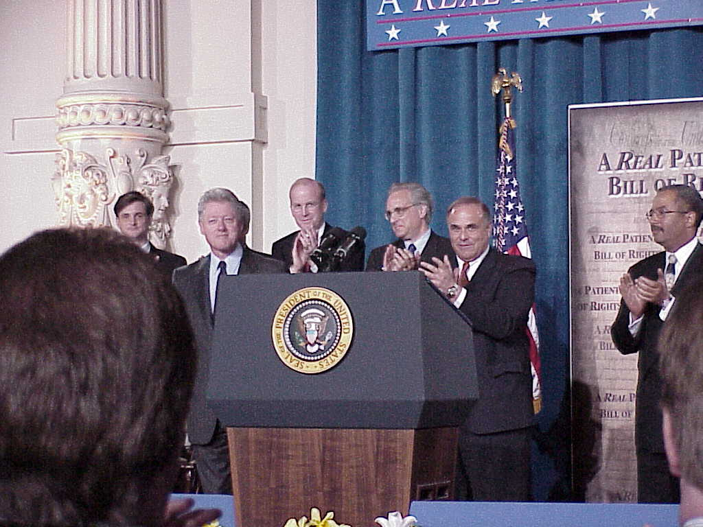 Bill Clinton, Joe Hoeffel, Ron Klink, Ed Rendell, and Chaka Fattah at an event for the U.S. Patients' Bill of Rights.